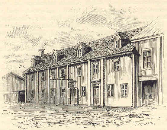 House of Carl Wilhelm Scheele in Köping, Sweden. From Swedish periodical "Ord och Bild" 1892.